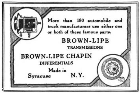 Brown-Lipe Transmissions - Brown-Lipe Chapin Differentials -Syracuse, New York - 1917